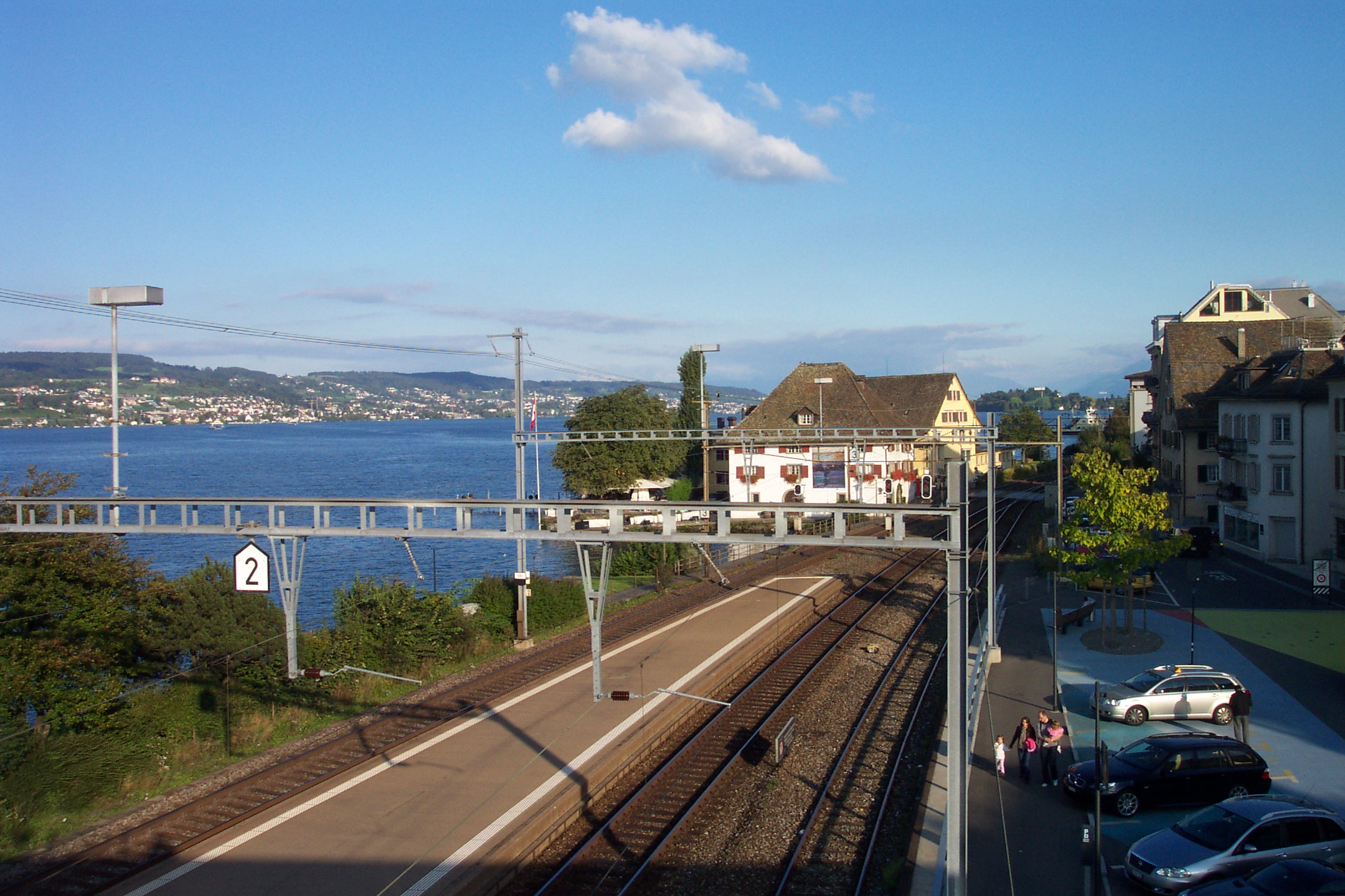 The southern end of Horgen railway station, viewed from the station footbridge. For more information, see the Wikipedia article Uetliberg railway station.